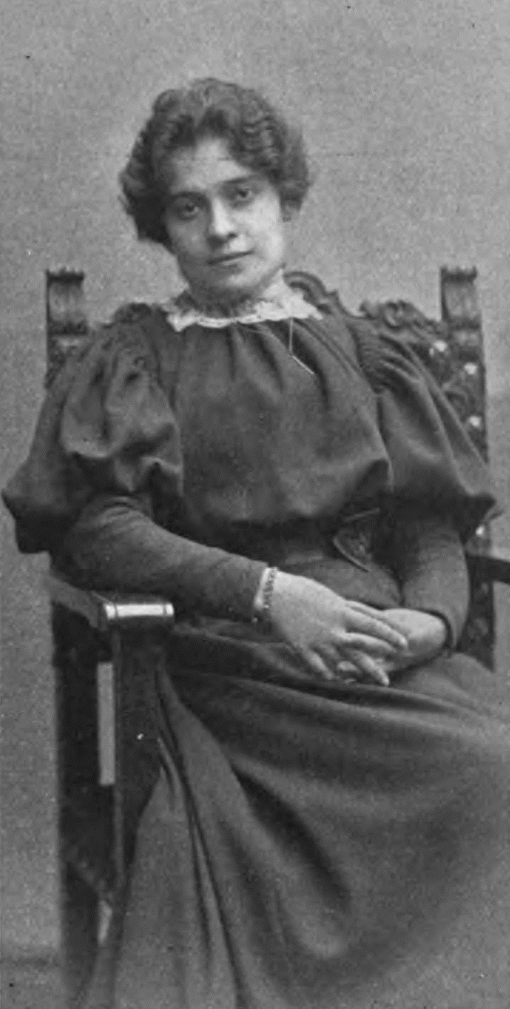 Ada Negri